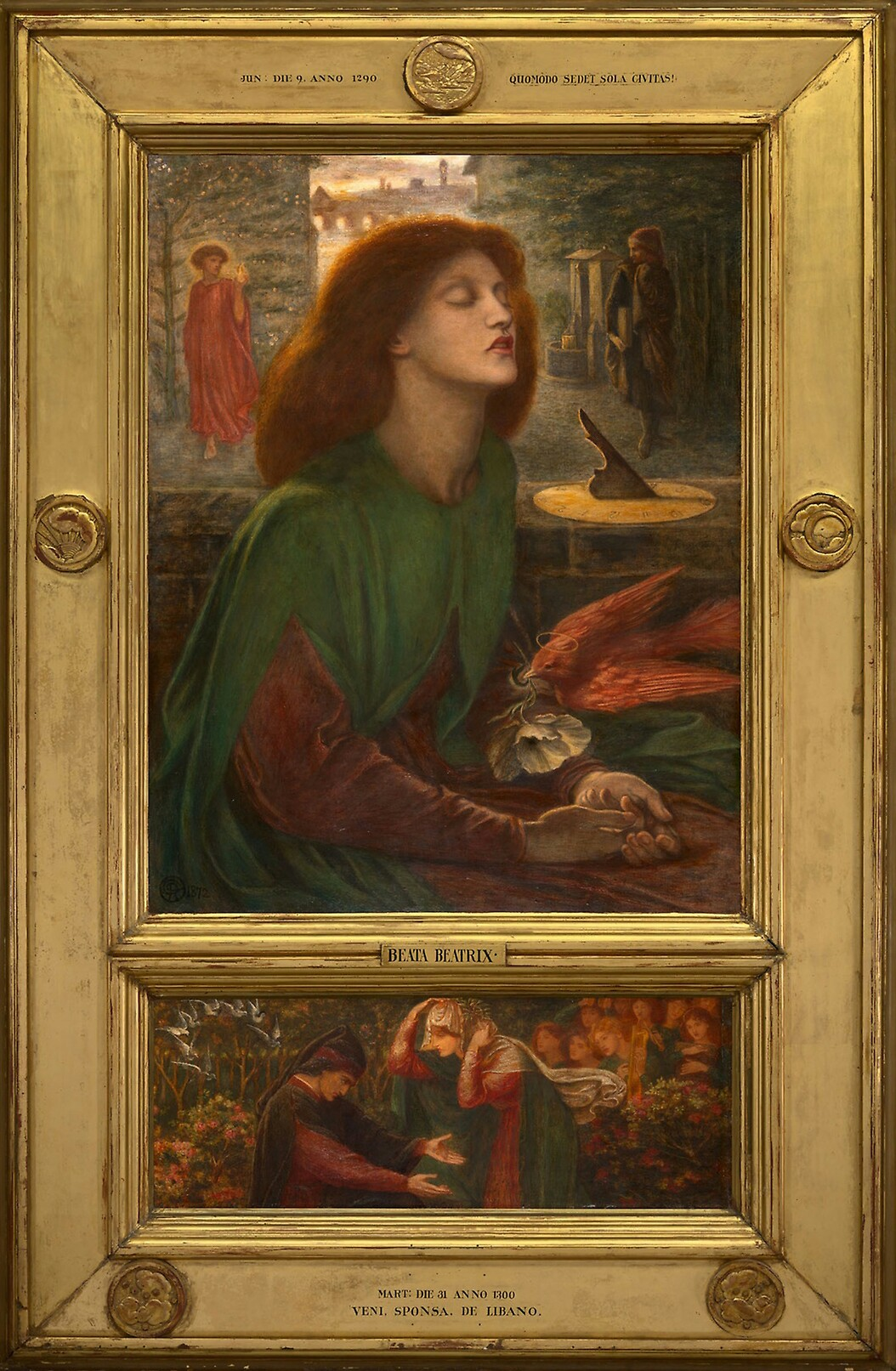 Beata Beatrix (replica with frame).